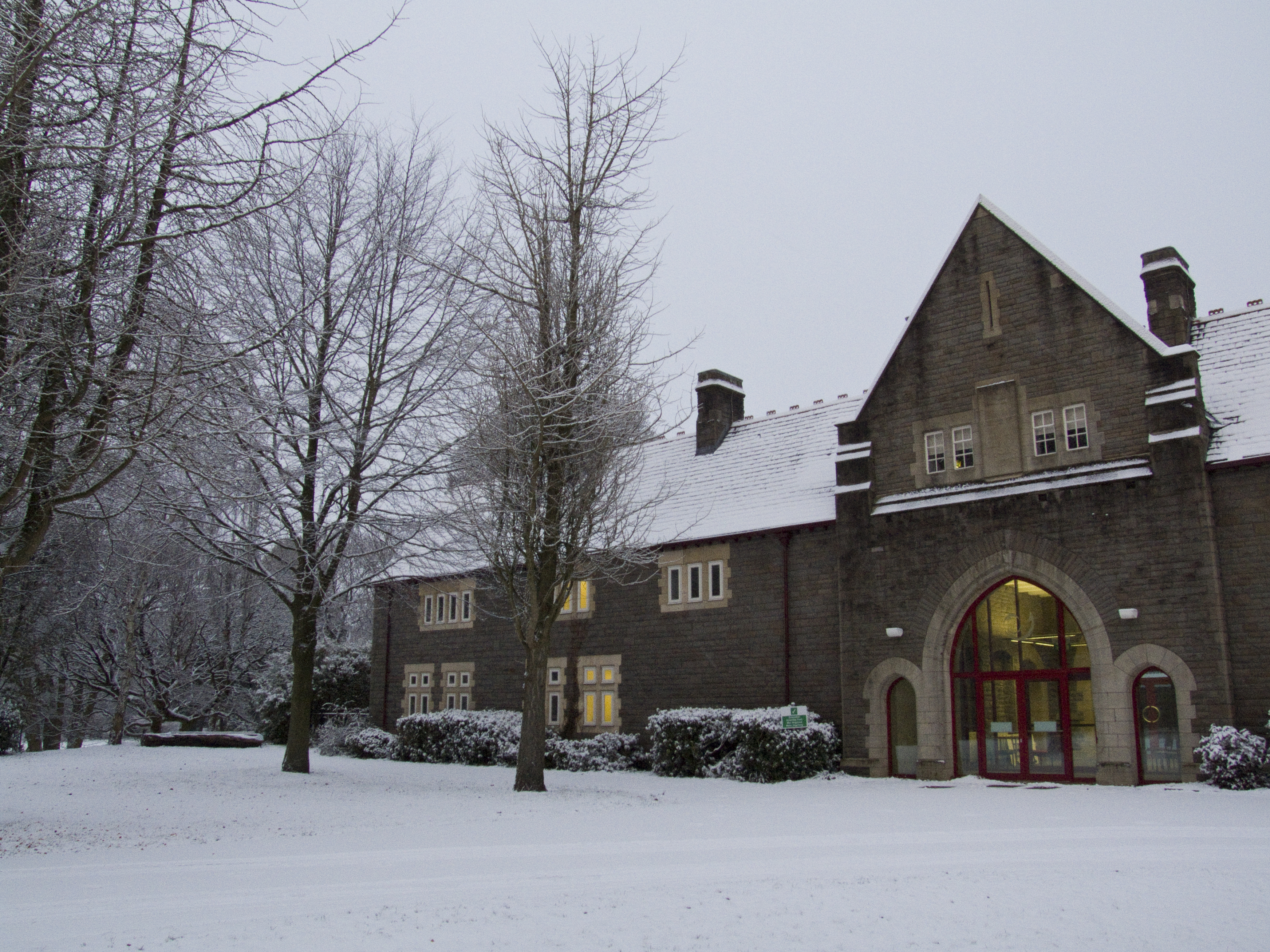 This building, the old castle mews stables, belongs now to the Royal Welsh College of Music & Drama. Walk past during the summertime, and you'll hear the sounds of musicians practicing all instruments imaginable; a kalidescope of sounds all meld together in a strange unintended symphony...